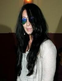 Cher in 2006.